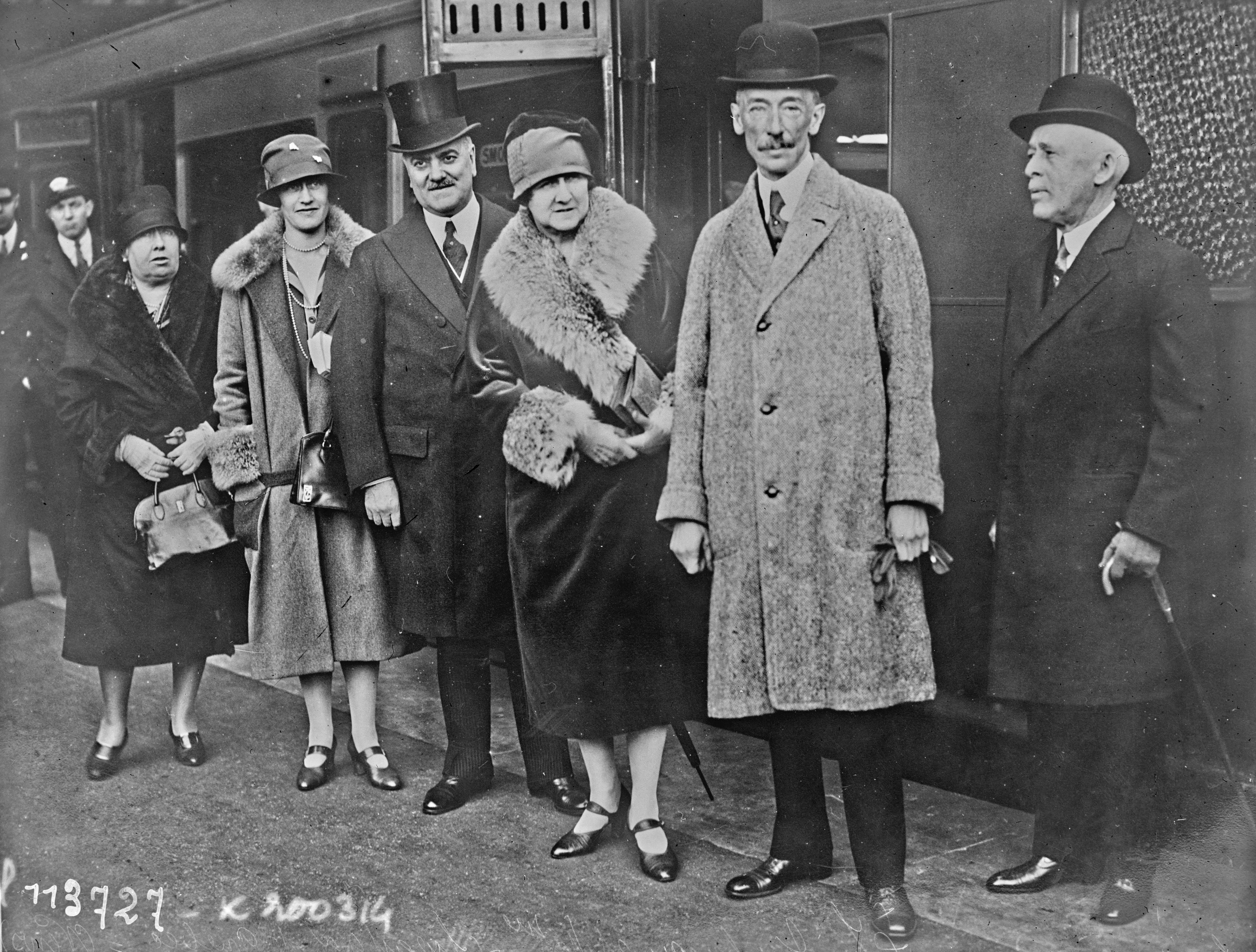 Louis-Alexandre Taschereau, Premier of Quebec, and his wife Adine Dionne, in London, 14 October 1926